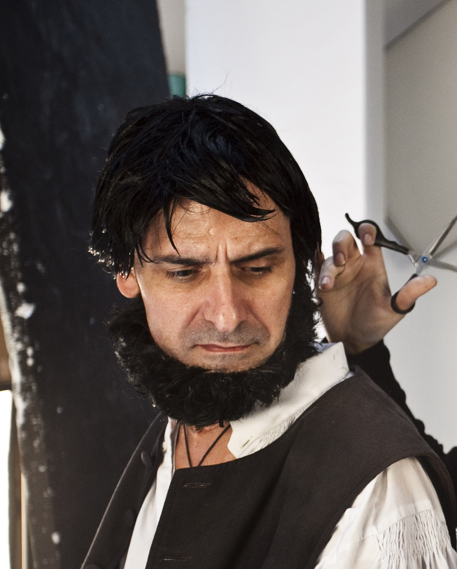 The italian actor Giovanni Boncoddo in a shot of october 2009